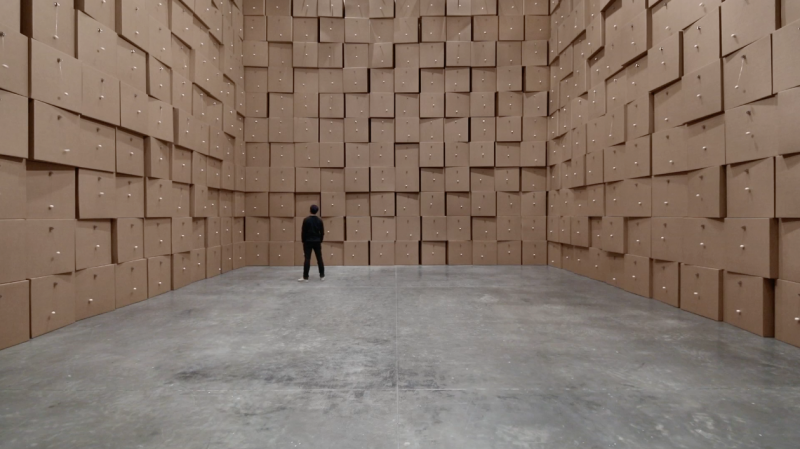 Installation: 658 prepared dc-motors, cotton balls, cardboard boxes 70x70x70cm, Zimoun 2017. Installation view: Le Centquatre Paris, France. Curated by José-Manuel Gonçalves.